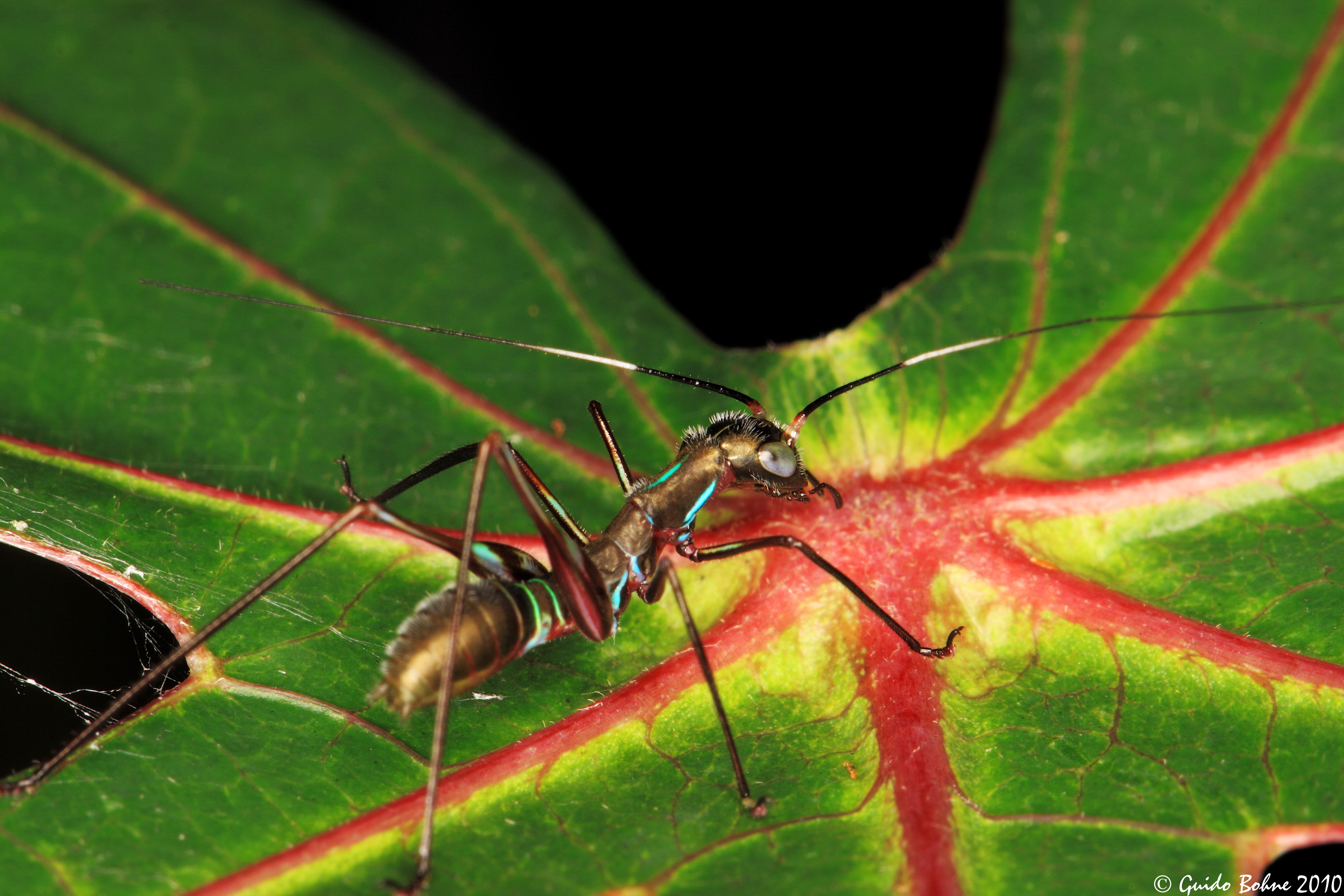 This nymph (false) katydid or bush-cricket, ~2-3cm, looks like a giant ant (mimicry); however, ants (Hymenoptera) neither have such - long - antennae nor such strong hind-legs (femur)! The colouration supports the mimicry: the dark colour of antennae is interrupted by a broad white part, hence they seem to be short like the ones of ants. The same happens with the colourful neon-stripes that legs seem thin and the body seems constricted... like a real ant! please compare (Nymph from Africa): Subfamily: Phaneropterinae BURMEISTER, 1838 (false katydids) [det. Brigitte Helfert, 2013, based on this photo] Family: Tettigoniidae KRAUSS, 1902 (bush-crickets or katydids, Laubheuschrecken) [det. "shadowshador", 2013, based on this photo] Superfamily: Tettigonioidea KRAUSS, 1902 Suborder: Ensifera (crickets, katydids and bush-crickets, Langfühlerschrecken) Order: Orthoptera (Heuschrecken & Grillen) Infraclass: Neoptera (Neuflügler) Subclass: Pterygota Class: Insecta (insects, Insekten) Subphylum: Hexapoda Phylum: Arthropoda (Gliederfüßer) taxonomical info: and: Indonesia, W-Papua, vic. Manokwari: Gunung Meja (Table mountain NP), ca. 100m asl., 11.08.2010 (IMG_3684)